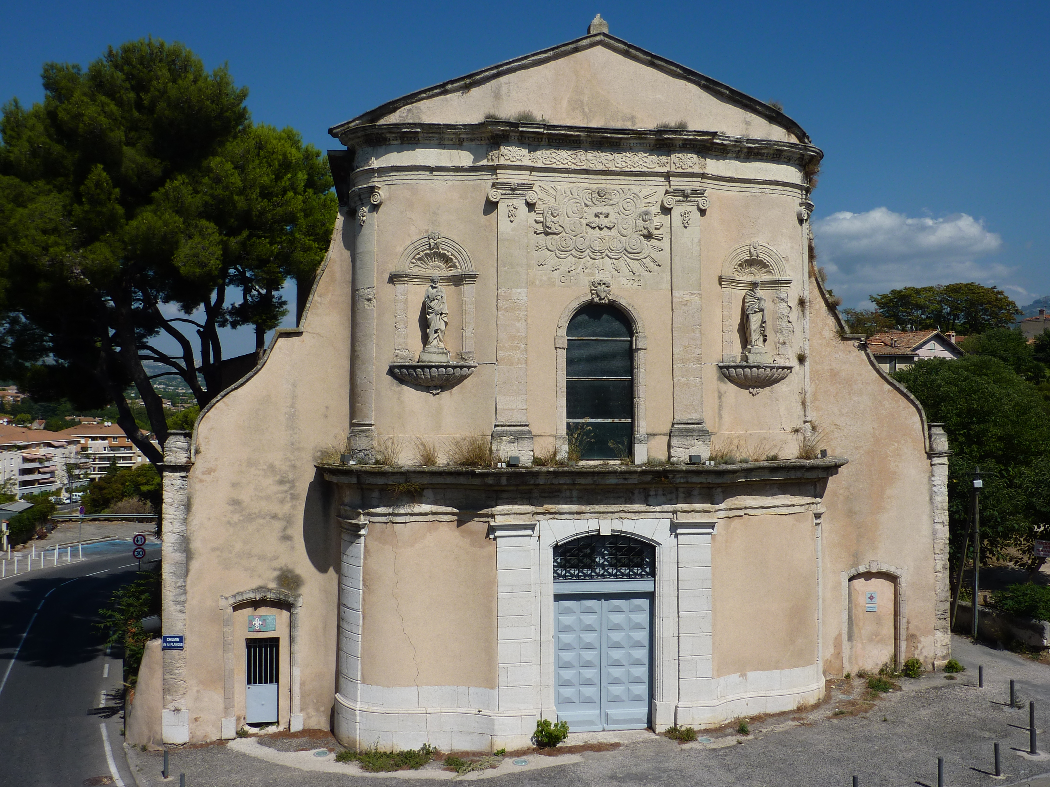 Chapel of White Penitents (Aubagne, Bouches-du-Rhône, France) .